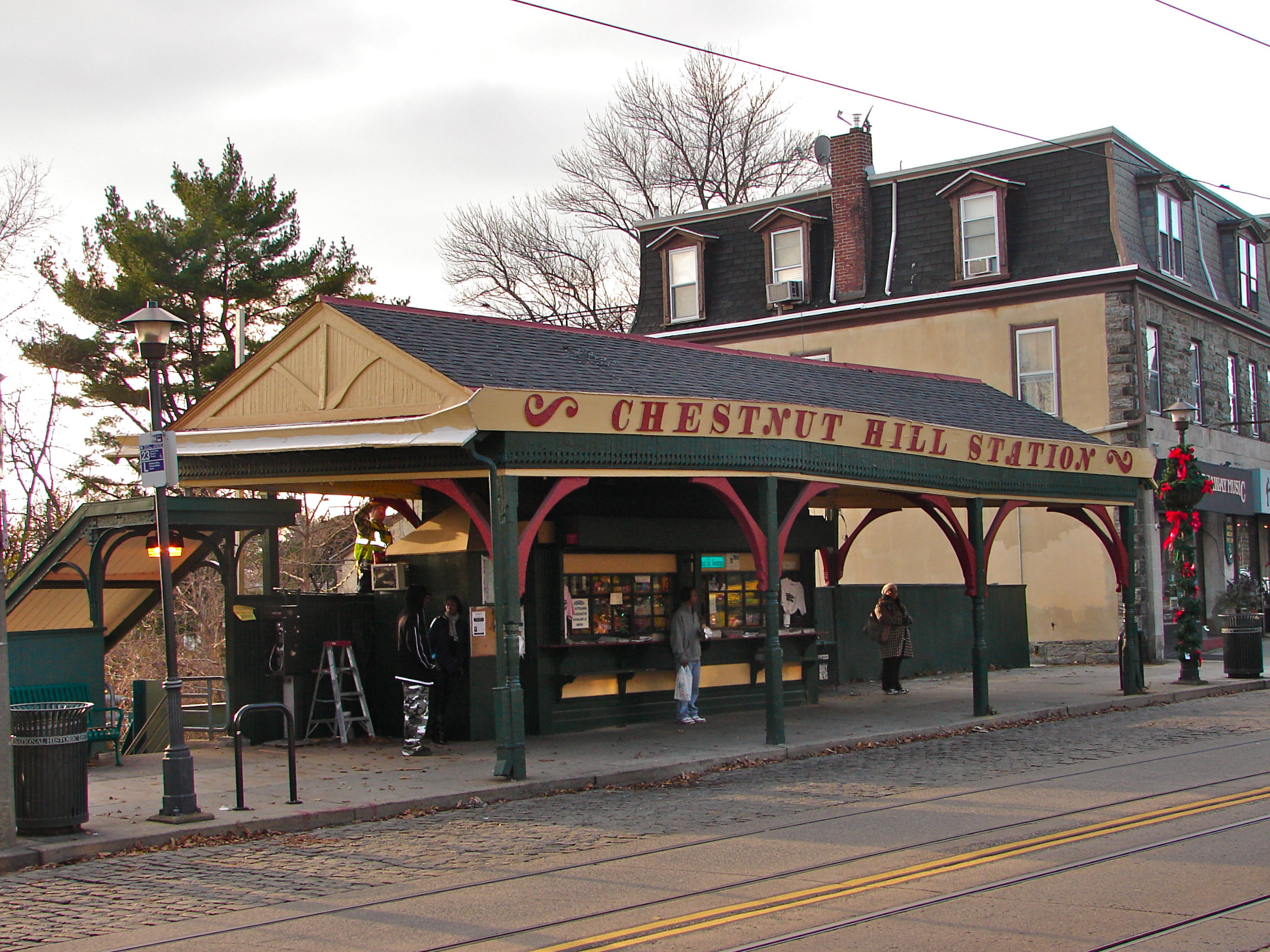 Chestnut Hill Newsstand and Trolley Station at 8608 Germantown Ave., Chestnut Hill, Philadelphia, Pennsylvania. The trolley station, used originally for the 23 trolley and now for the (temporary substitution) 23 SEPTA bus, abuts the Chestnut Hill West SEPTA Regional Rail Station (formerly of the Pennsylvania Railroad) and serves as a gateway for disembarking commuters. In the Chestnut Hill Historic District on the NRHP.